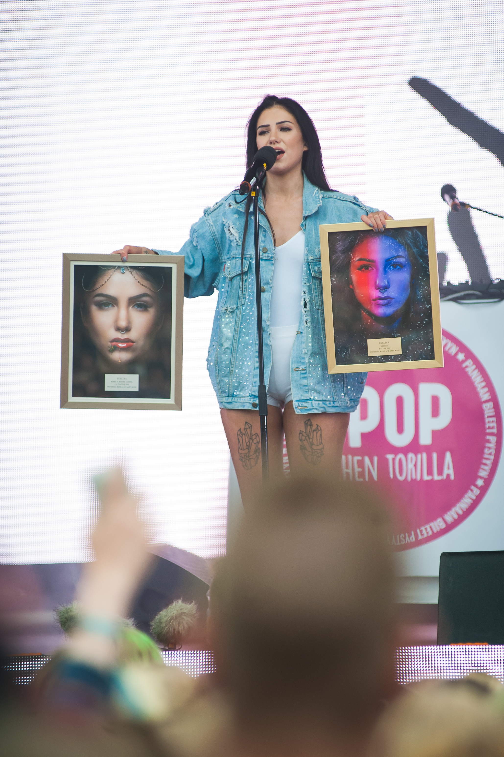 Finnish vocalist Evelina receiving a platinum and a gold single at YleXPop event in Lahti, Finland on the 4th of June, 2016.